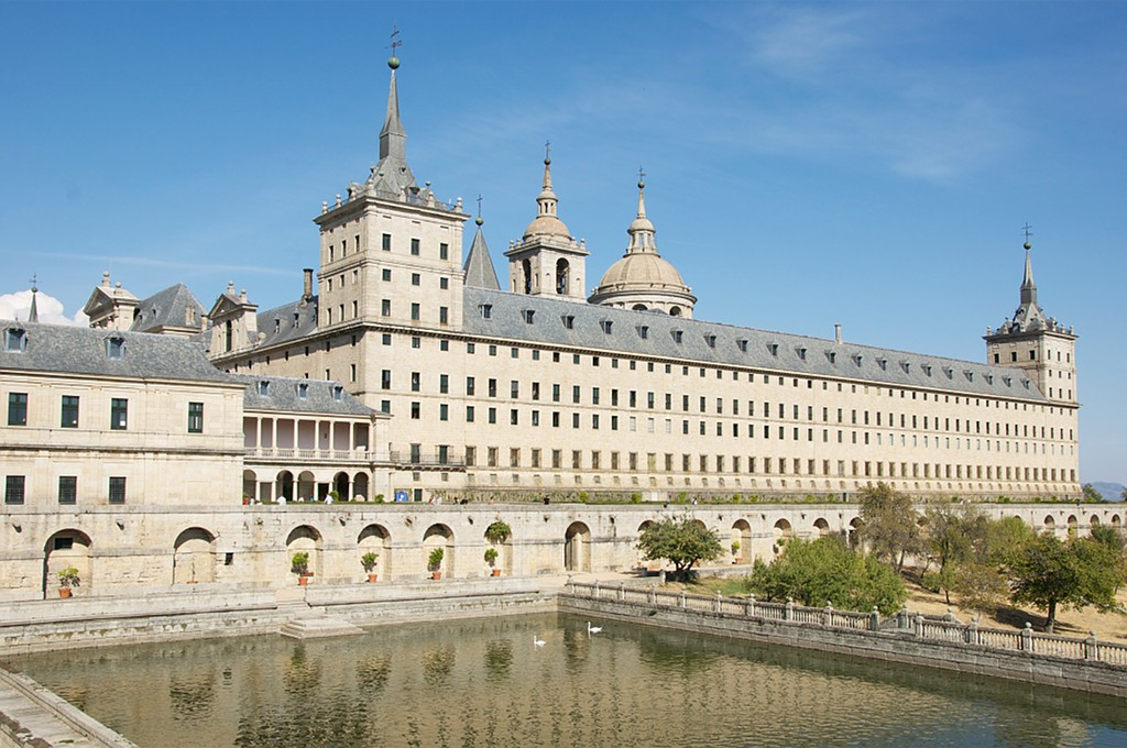 The royal site of San Lorenzo de El Escorial is a big complex (palace, monastery, museum and library) located in San Lorenzo de El Escorial, a village situated approx. 45 km north west of Madrid, in the Comunidad de Madrid in Spain.